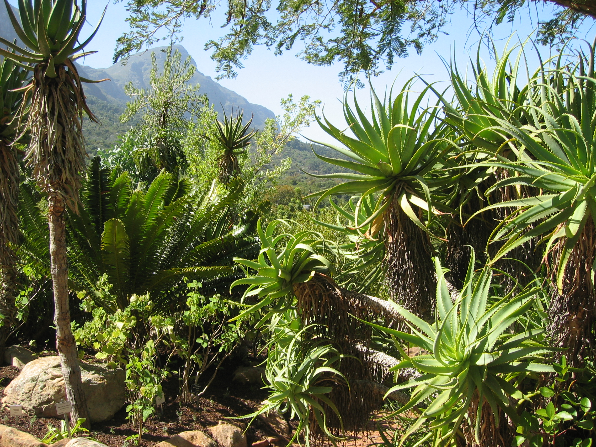 Kirstenbosch Botanical Garden, Aloe species, Cape Town, South Africa.